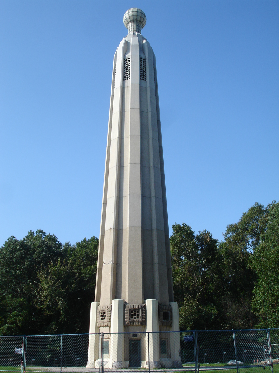 I took this photo of the Edison Tower myself in September 2011.